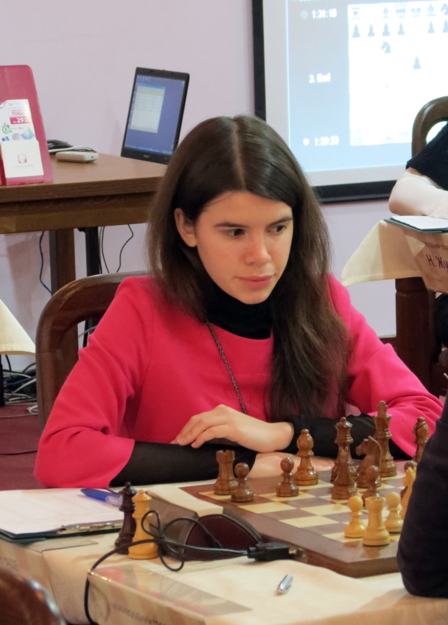 Iuliya Osmak Ukrainian championship-2014